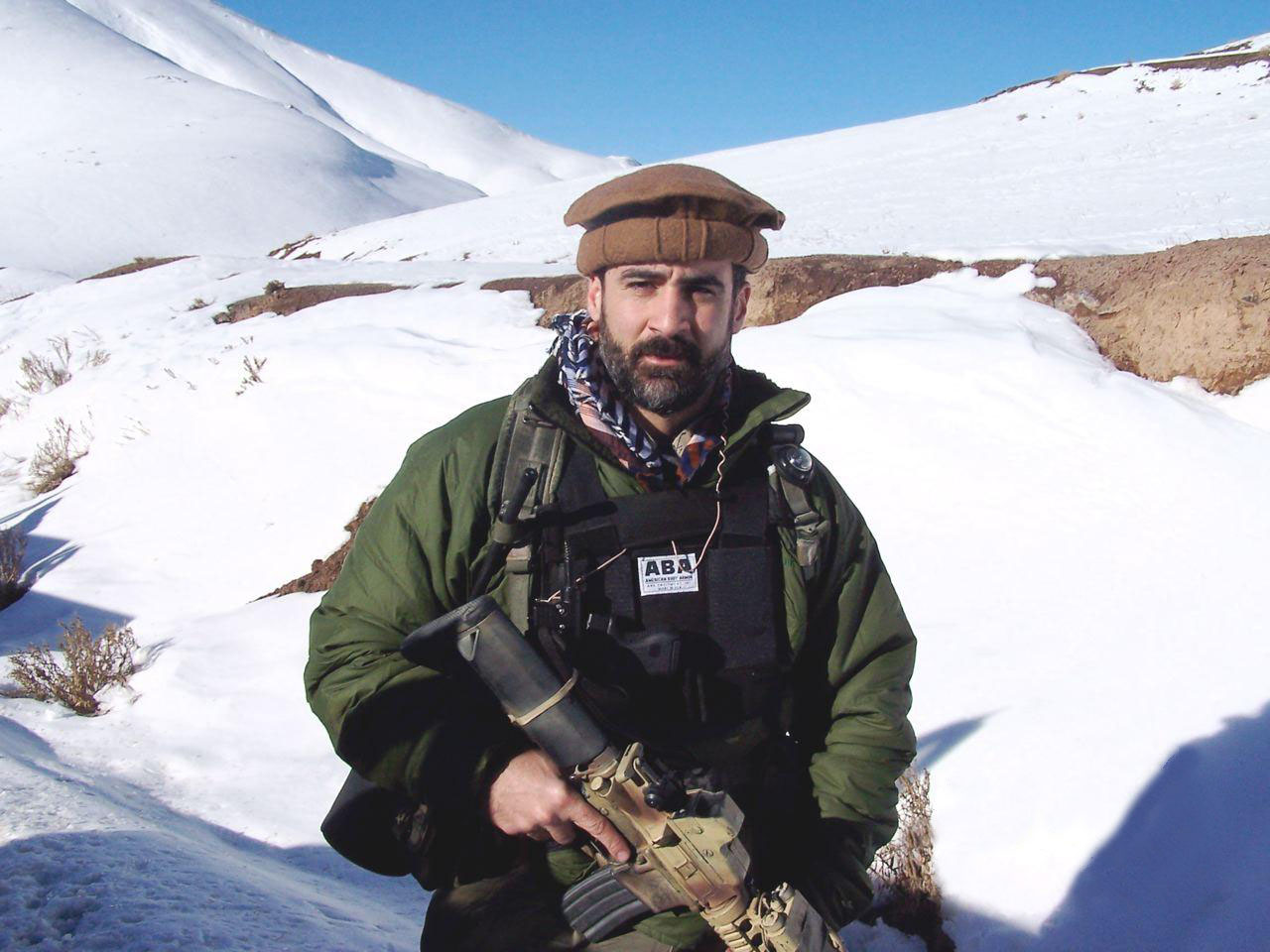 Pararescueman Senior Master Sgt. Ramon Colon-Lopez wearing the artifacts now displayed on a mannequin at the National Museum of the United States Air Force.